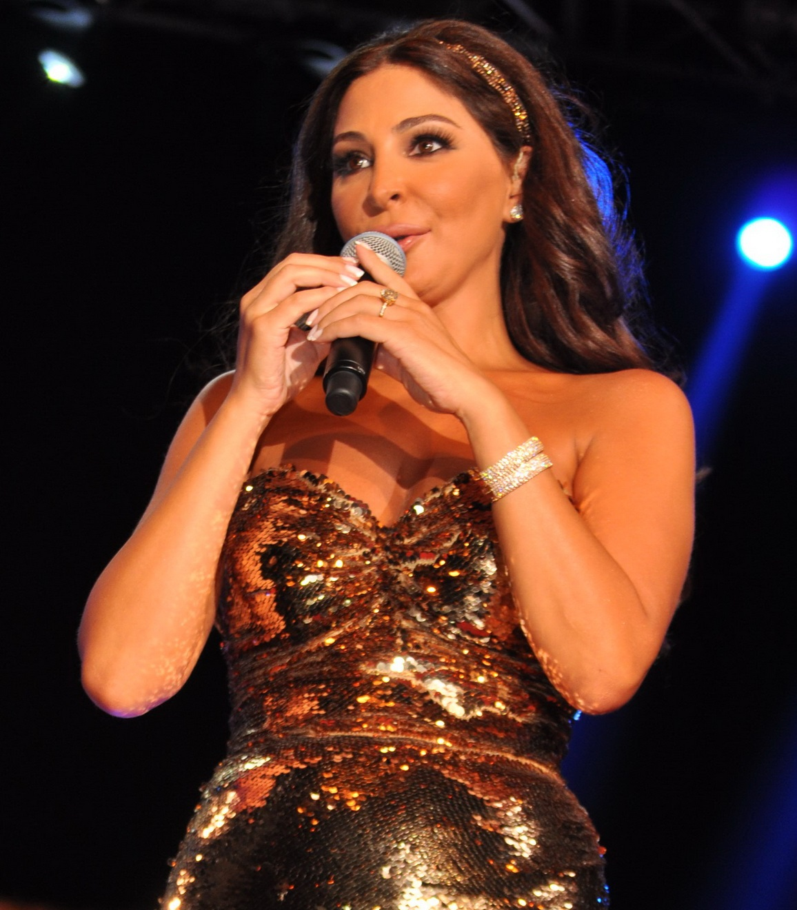 Elissa - August 24, 2012